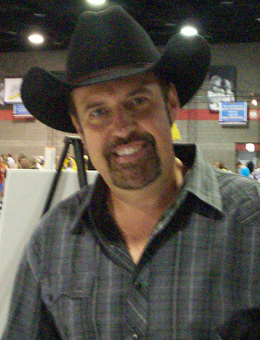 Country music singer/songwriter Billy Yates. Taken at CMA Music Fest, June 2010.